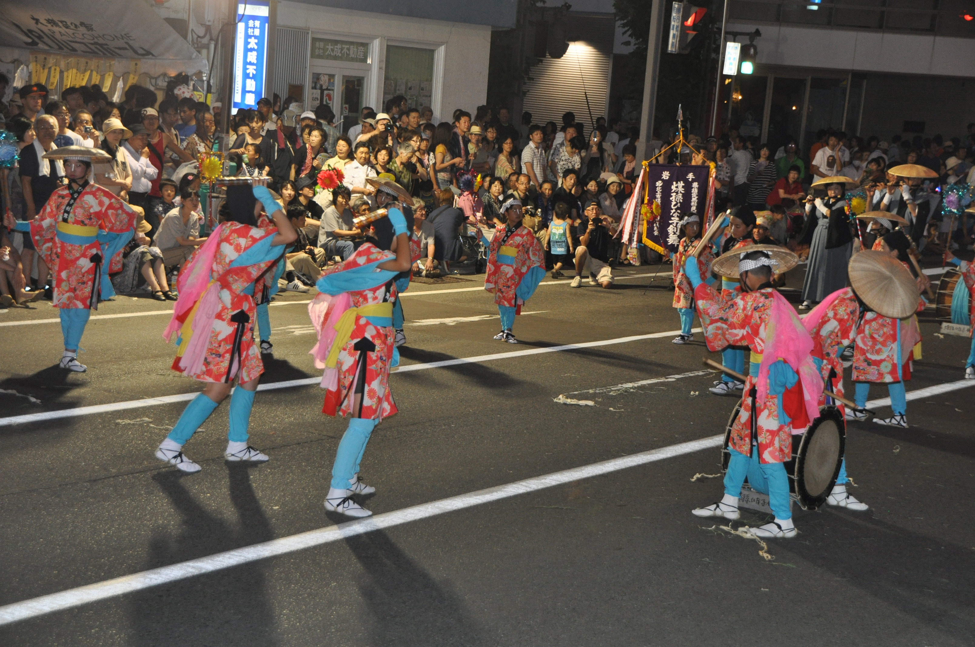 Oni Kenbai (鬼剣舞) 2 (Children), Kitakami, Iwate